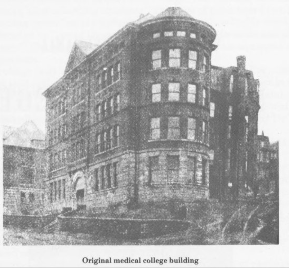 This image is part of the Historic Pittsburgh Collection found